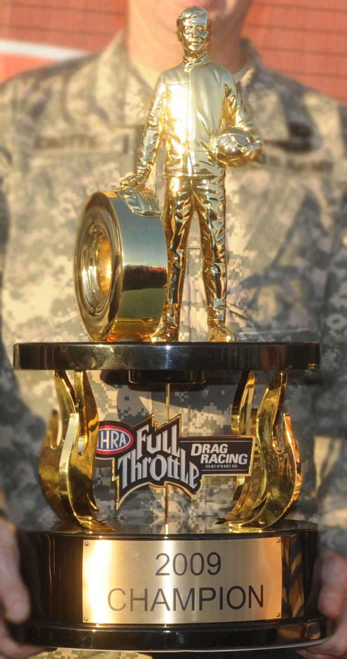 The 2009 NHRA Top Fuel championship trophy awarded to driver Tony Schumacher.